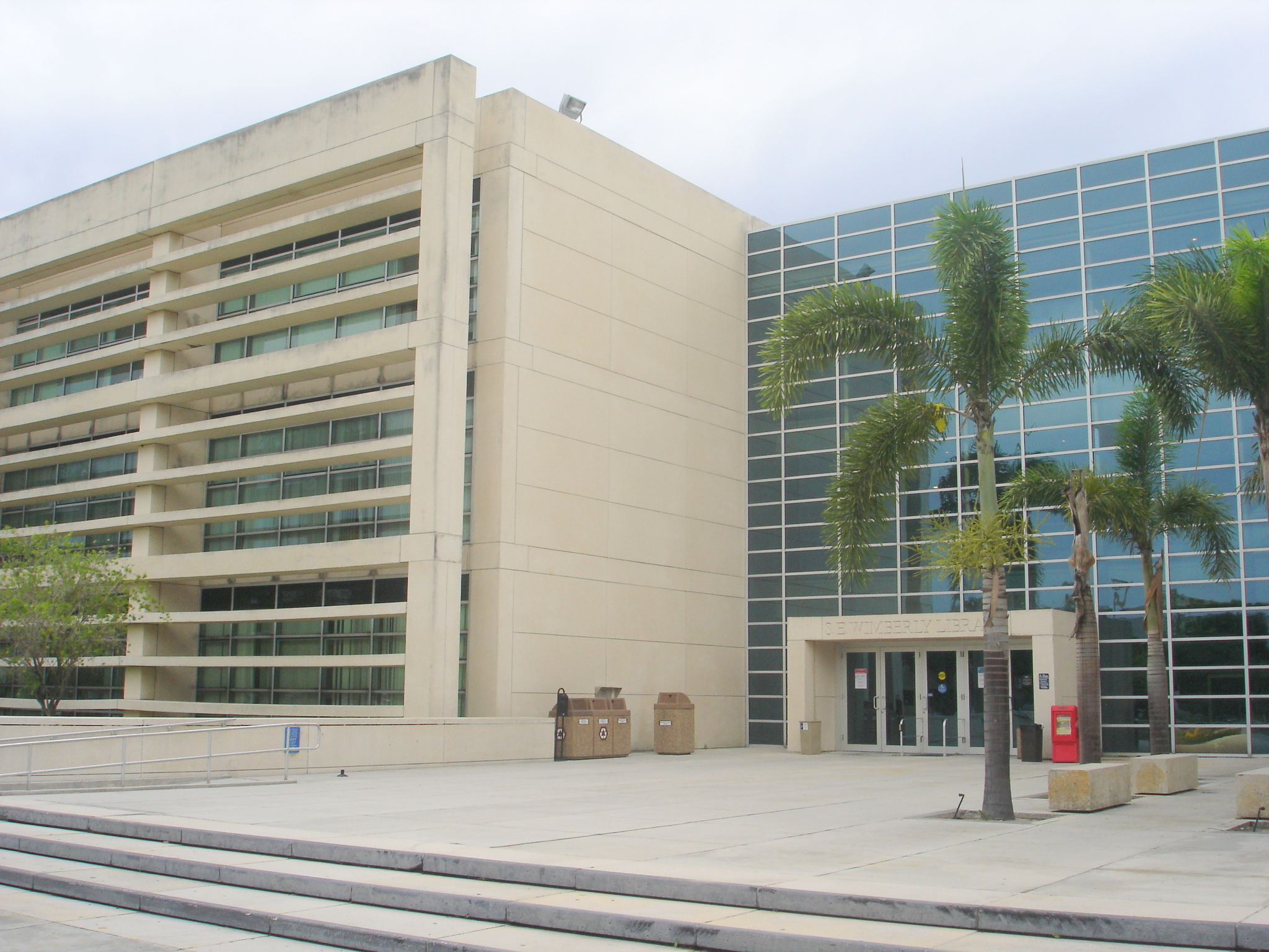 Florida Atlantic University library.